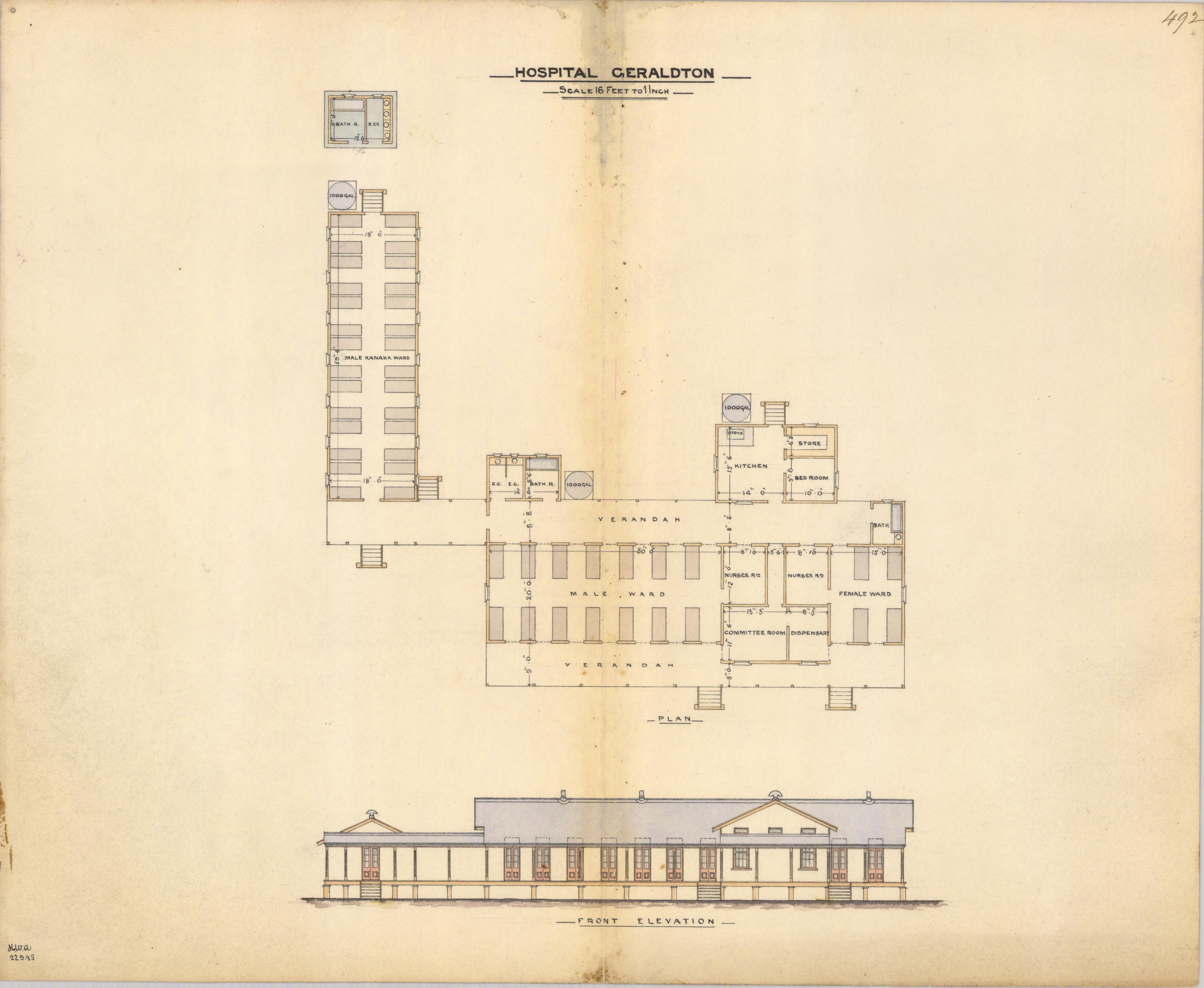 Architectural drawing of the Hospital, Geraldton (now Innisfail, Queensland), 22 September 1885